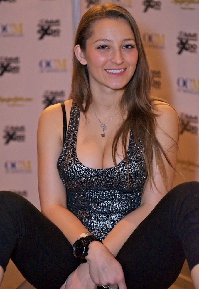 2012 AVN Adult Entertainment Expo (AEE) - Hard Rock Hotel - Las Vegas. © 2012 GEC